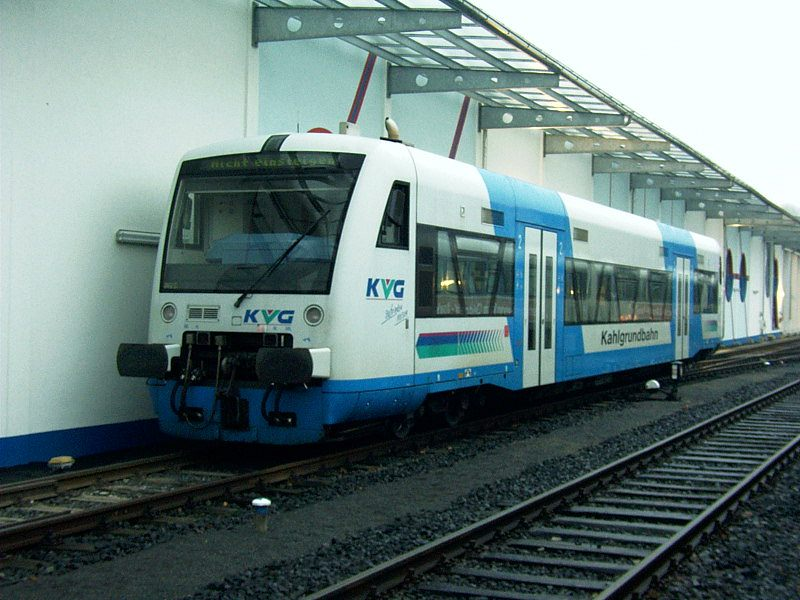 KVG VT 97 Regio-Shuttle RS1. German railbus. Subsequently sold on via DB-WestFrankenBahn to DB-SüdOstBayernBahn